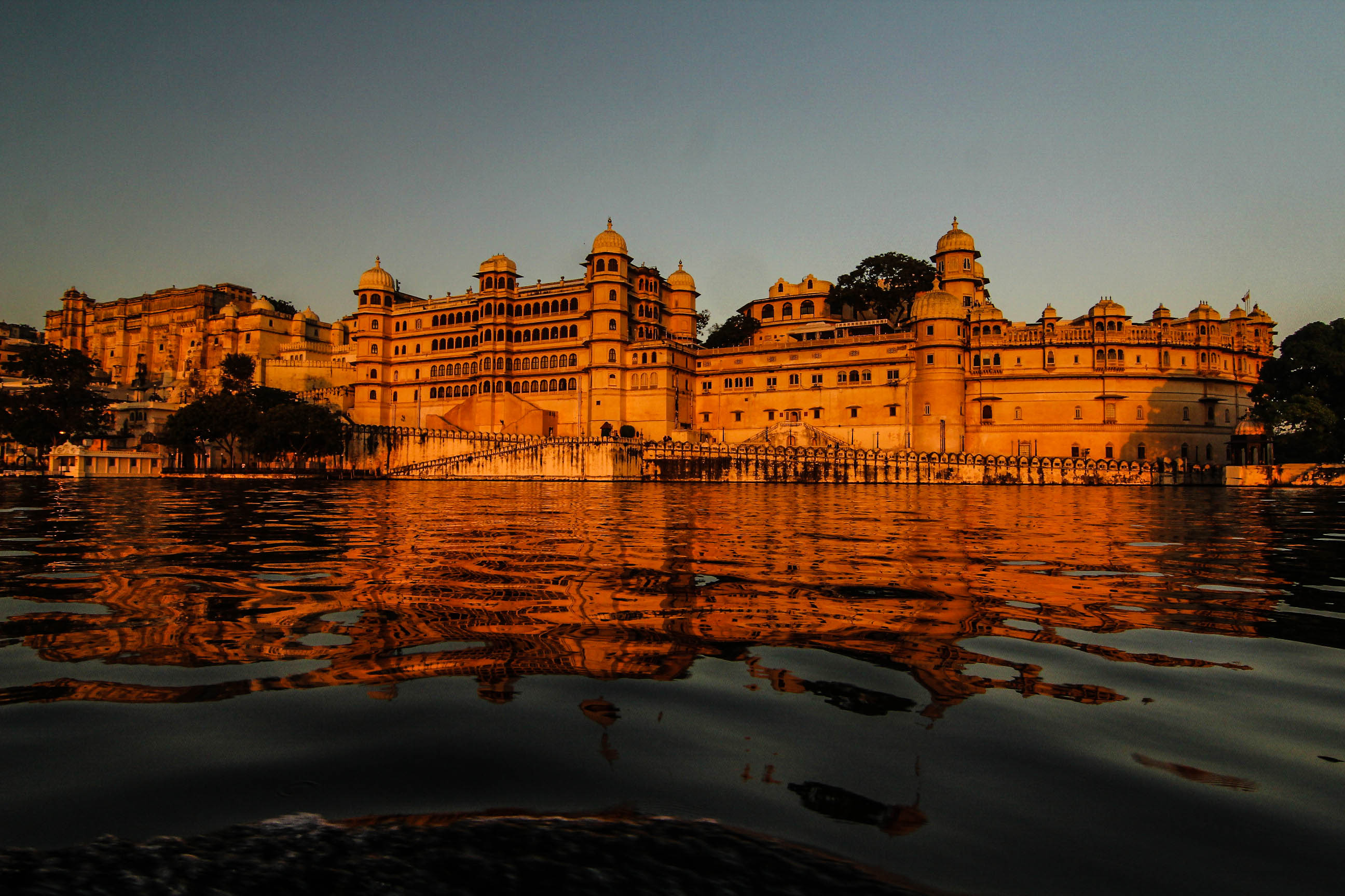 City Palace is a palace complex in Udaipur, in the Indian state Rajasthan. It was built in 1559. It is located on the east bank of the Lake Pichola and has several palaces built within its complex. Udaipur was the historic capital of the former kingdom of Mewar. Rajasthan, India 2013